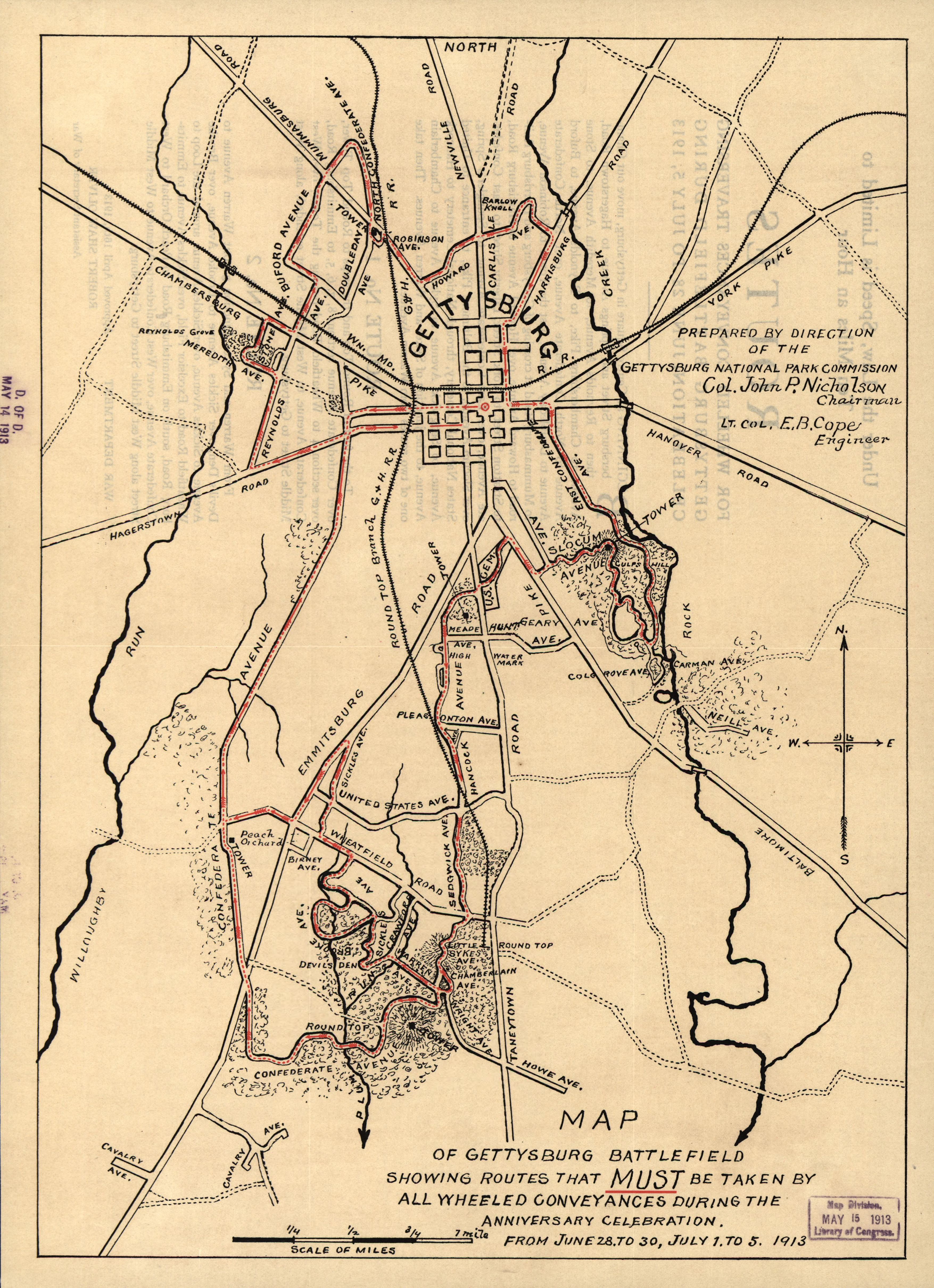 Map of Gettysburg battlefield showing routes that must be taken by all wheeled conveyances during the anniversary celebration, from June 28 to June 30, July 1 to 5, 1913, Gettysburg National Military Park Commission